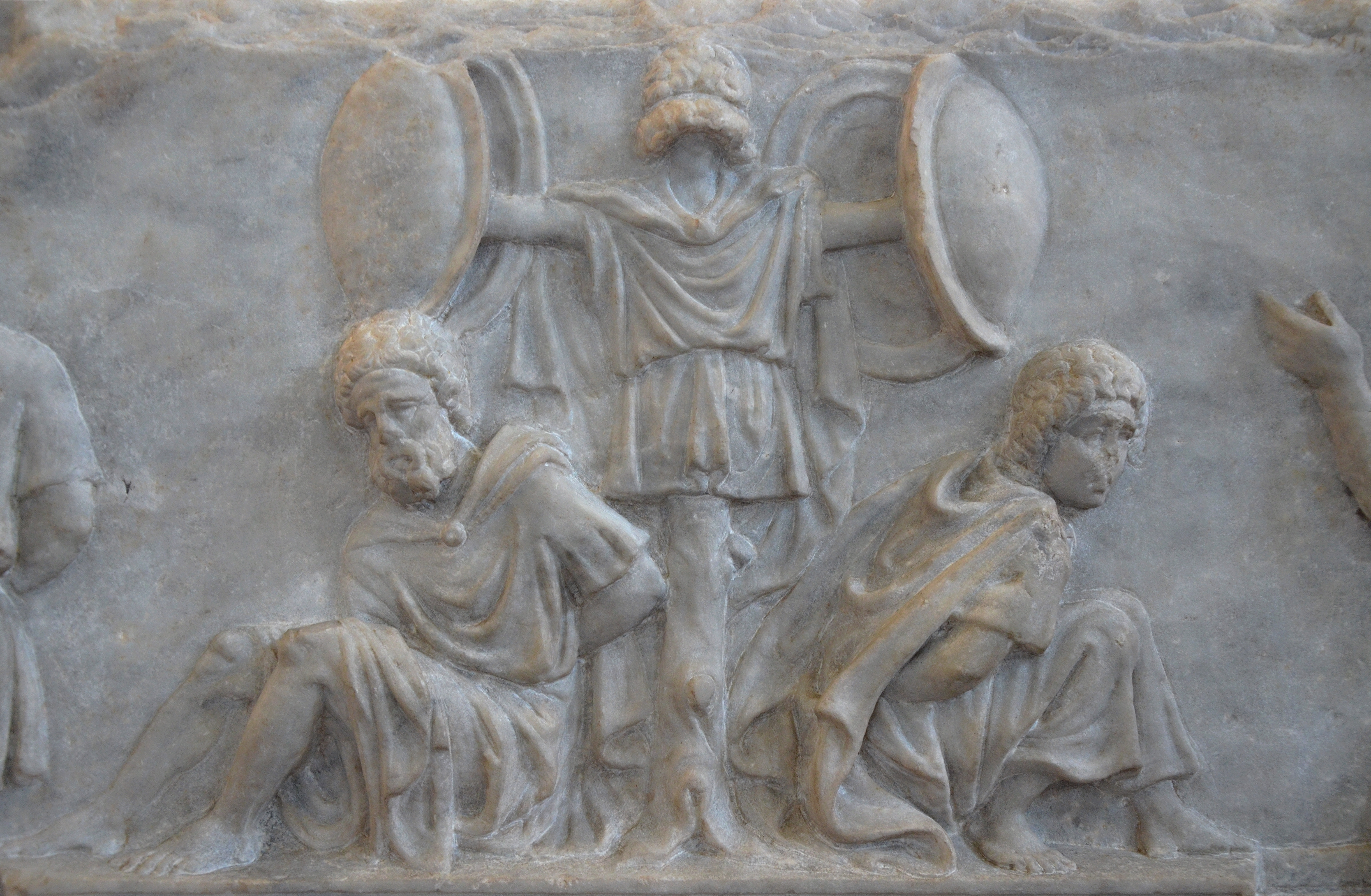 The cella's interior frieze of the Temple of Apollo Sosianus depicting Octavian's triple triumph held in 29 BC, Centrale Montemartini, Rome